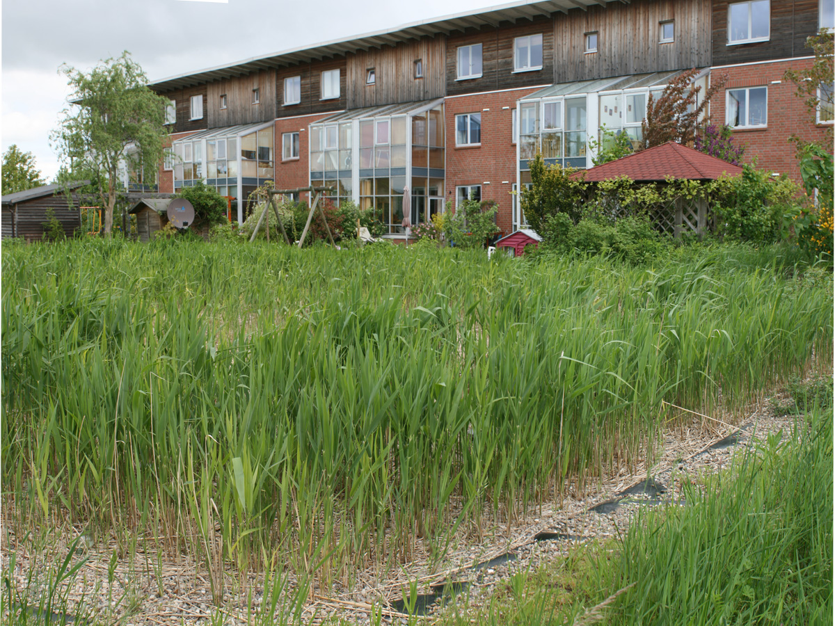 Constructed wetland in the Flintenbreite neighborhood, captured by Nels Nelson